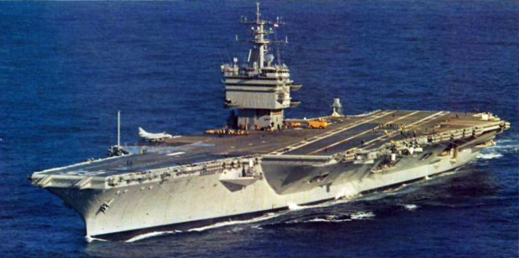 The U.S. Navy aircraft carrier USS Enterprise (CVN-65) underway after her refit, in 1982. Note the single Douglas A-4E/F Skyhawk on deck.